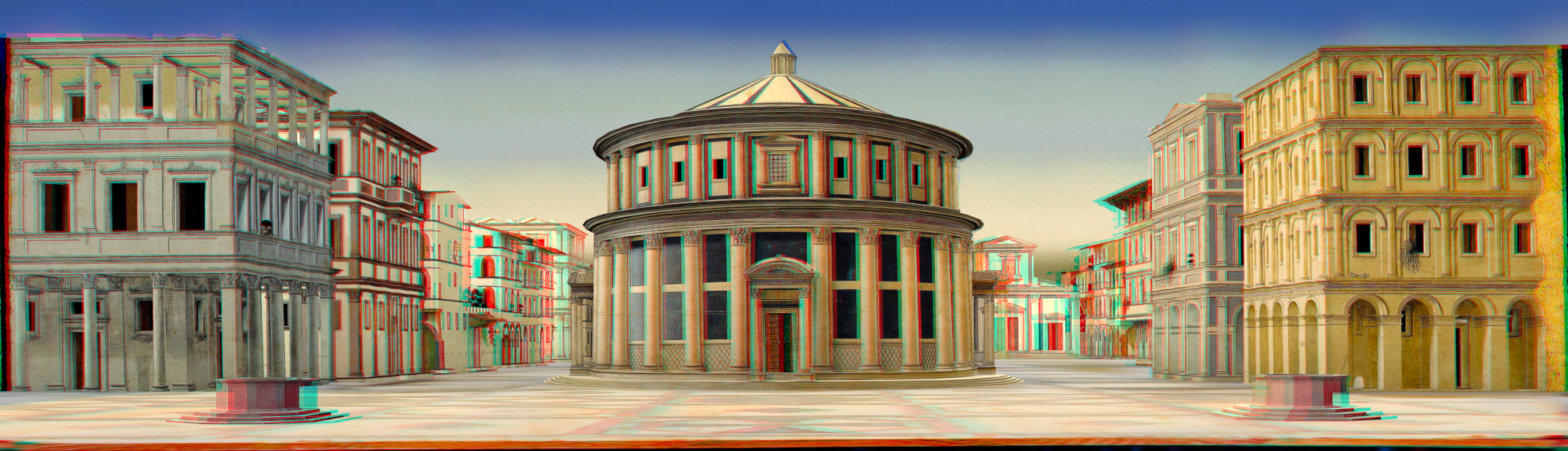 Ideal City in a Anaglyph version made with Blender